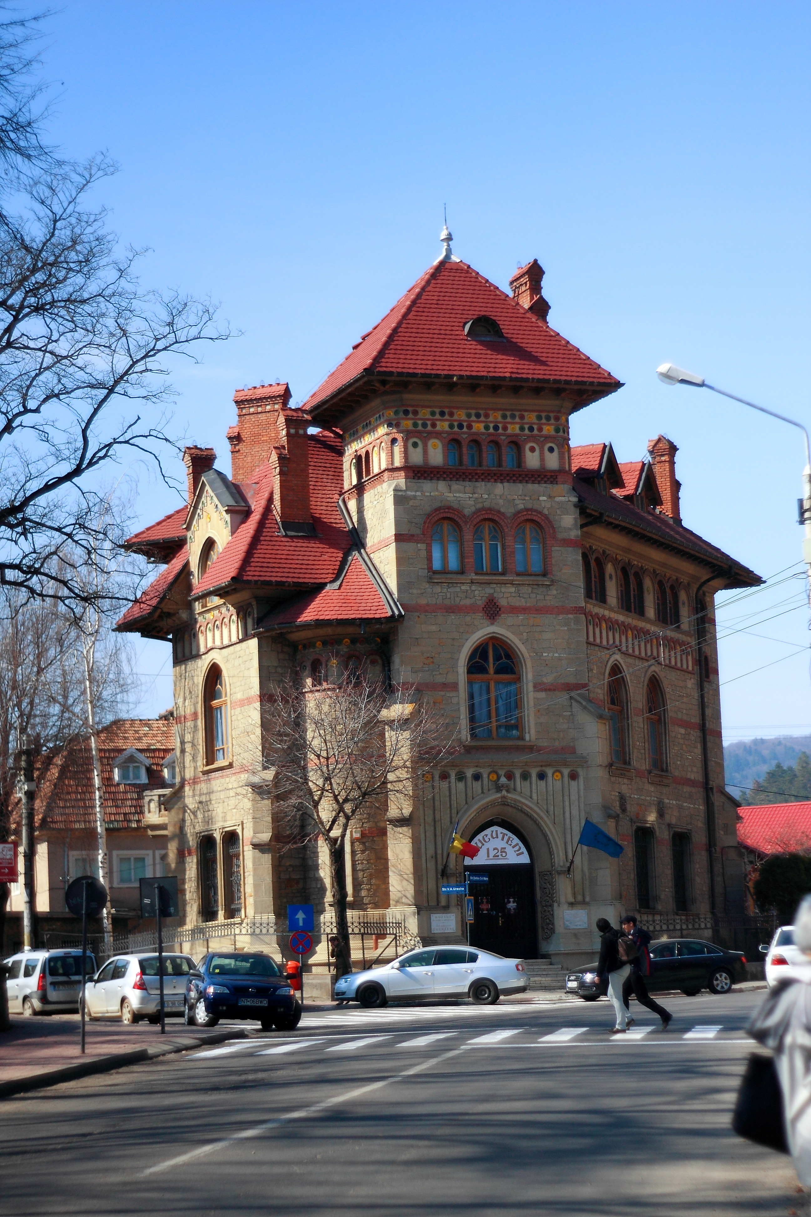 Piatra Neamţ Cucuteni Museum